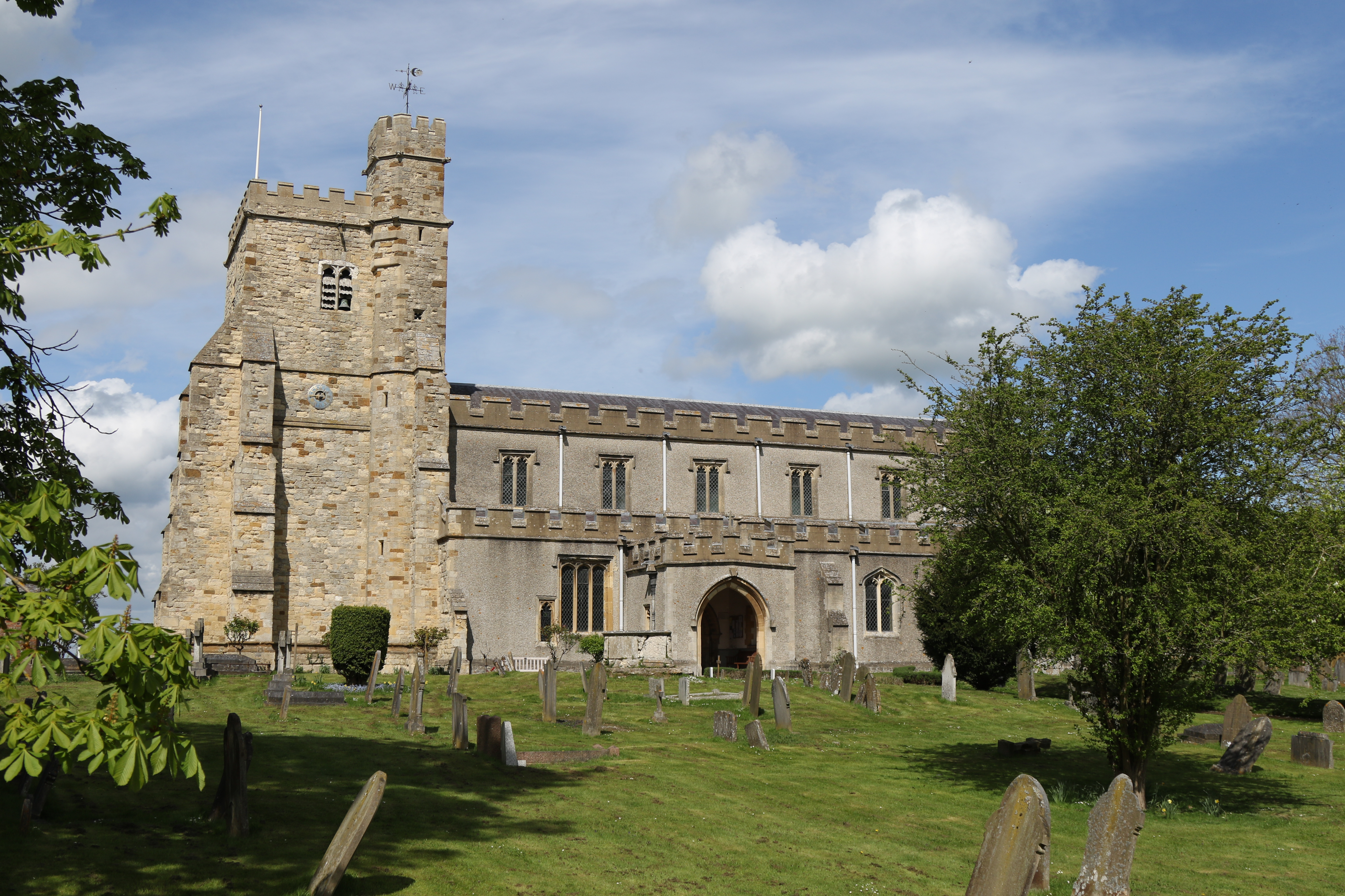 St Michael and All Angel's Church in Waddesdon